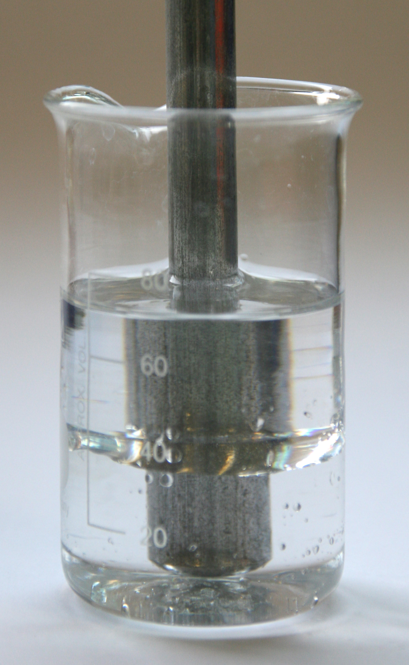 Light refraction of Benzene (above) and water (below)